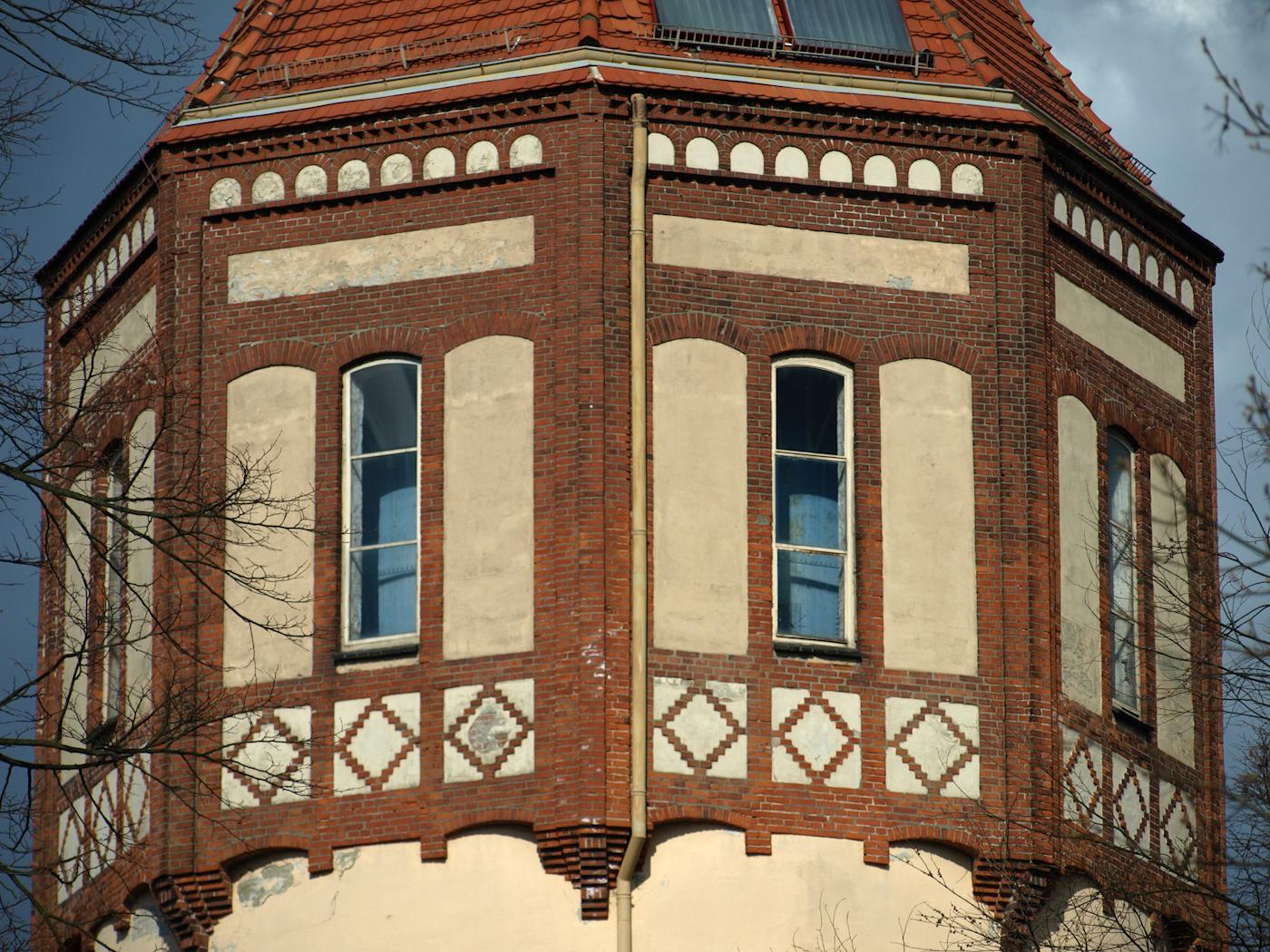 Kiel, Schleswig-Holstein (Germany), Water tower Kiel-Wik, photo 2011